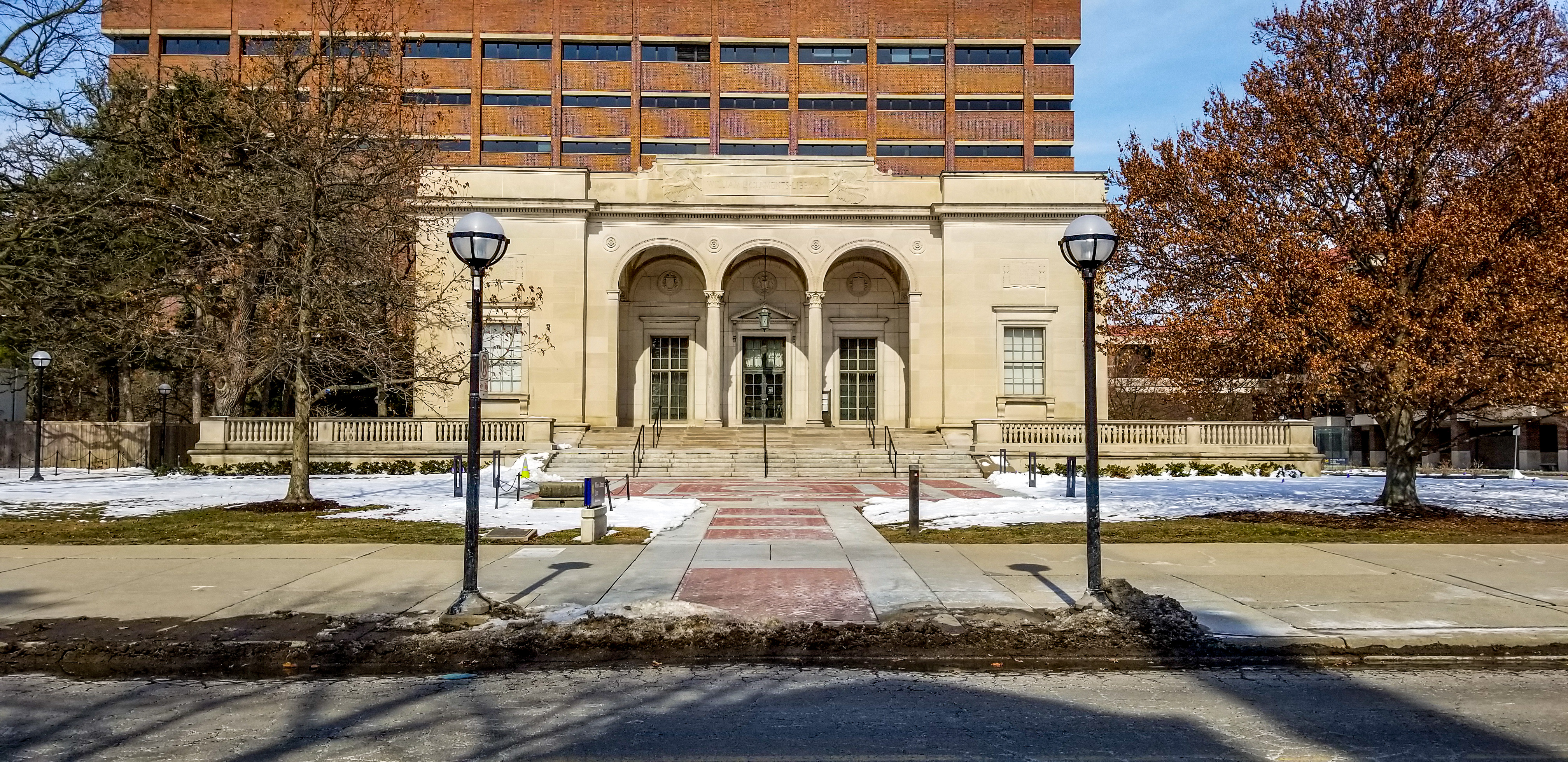 rare book library